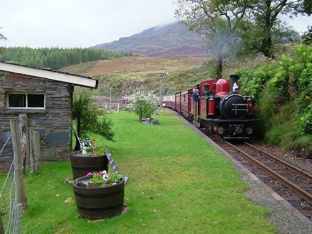 Double Fairlie David Lloyd George of the Ffestiniog Railway at Campbell's Platform.